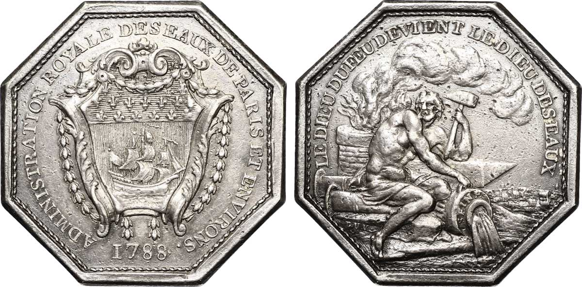 Corporation des officiers des eaux de Paris, 1788